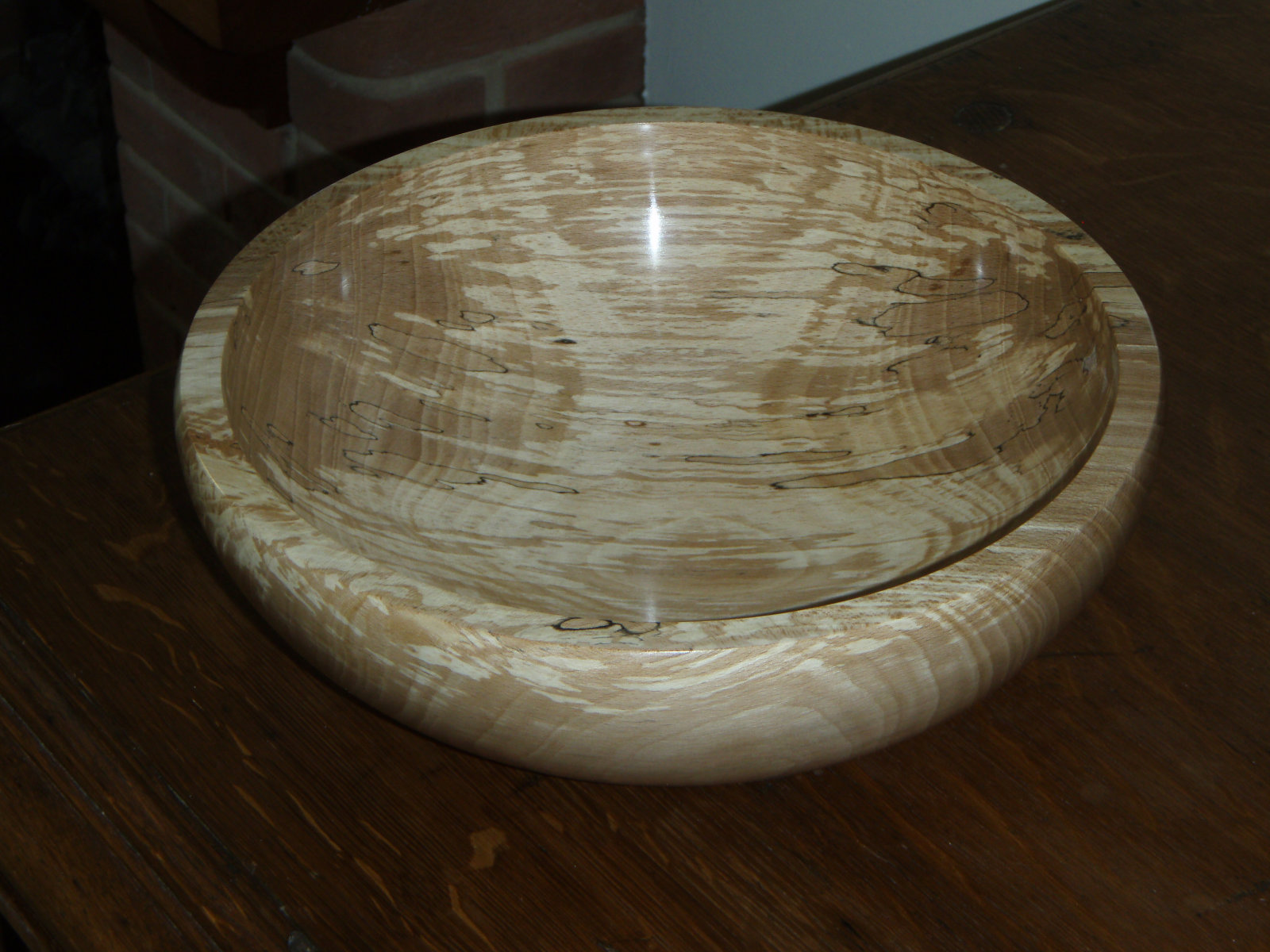 A bowl turned from spalted Beech with a wax finish.